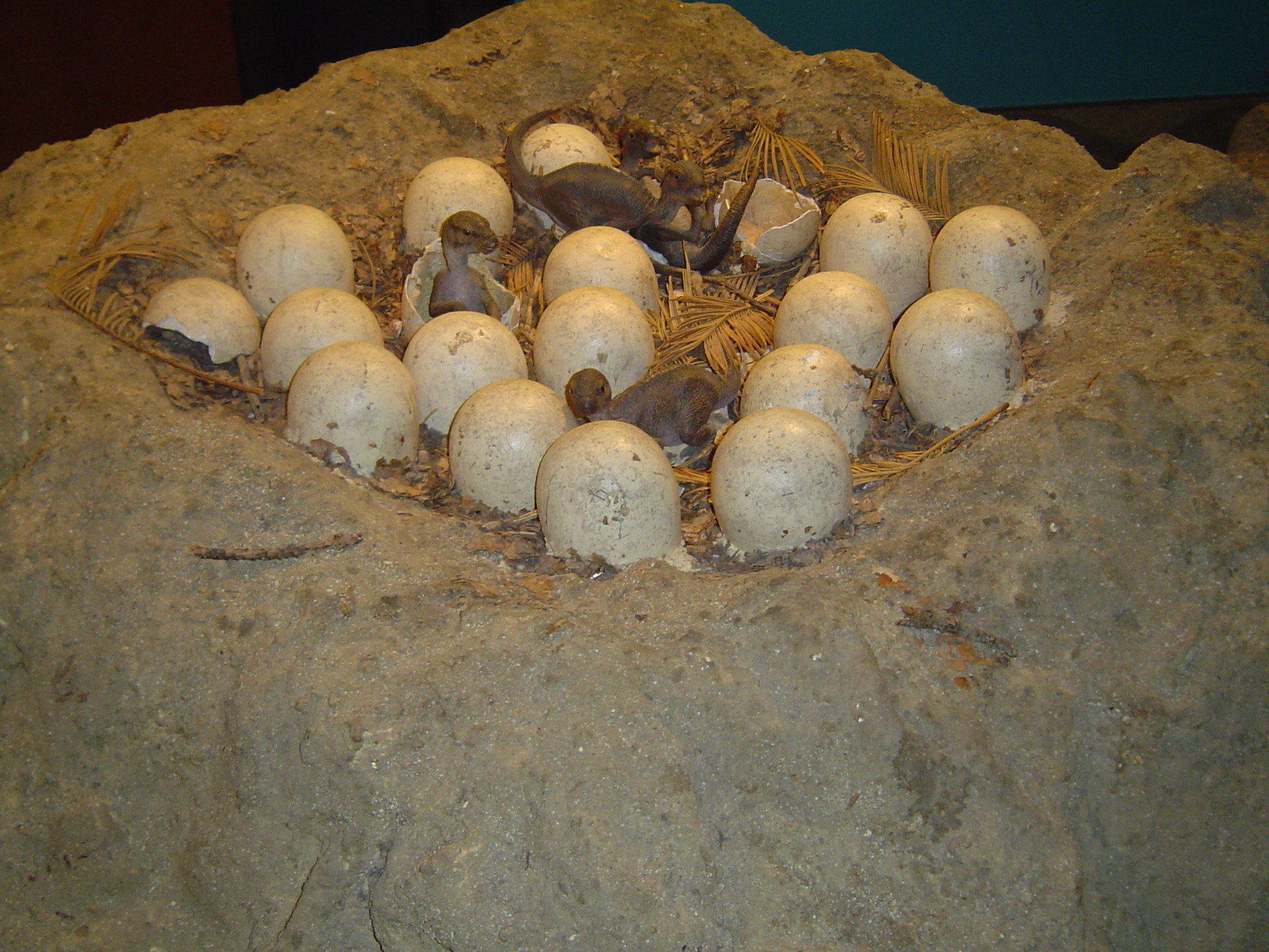 Reconstruction of a Maiasaura nest at the Natural History Museum, London, self taken photo in August 2006